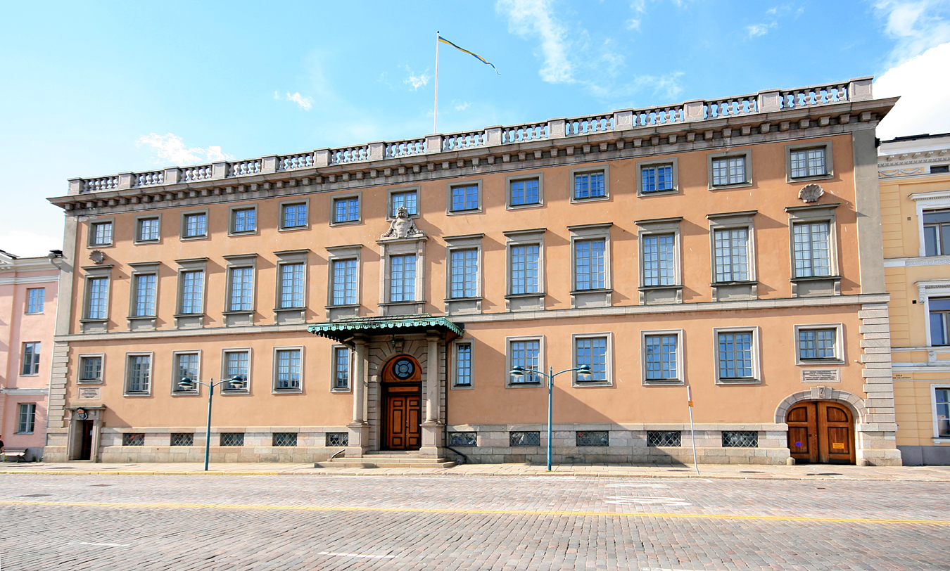 Swedish Embassy on Pohjoisesplanadi 7, Helsinki, Finland. Built 1839. Architect: A. F. Granstedt.